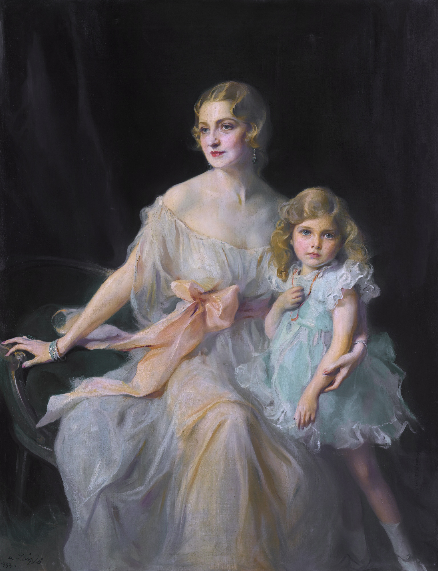 Mrs Claude Leigh and Miss Virginia Leigh oil on canvas 147.5 x 114 cm signed b.l.: de László 1933.v.